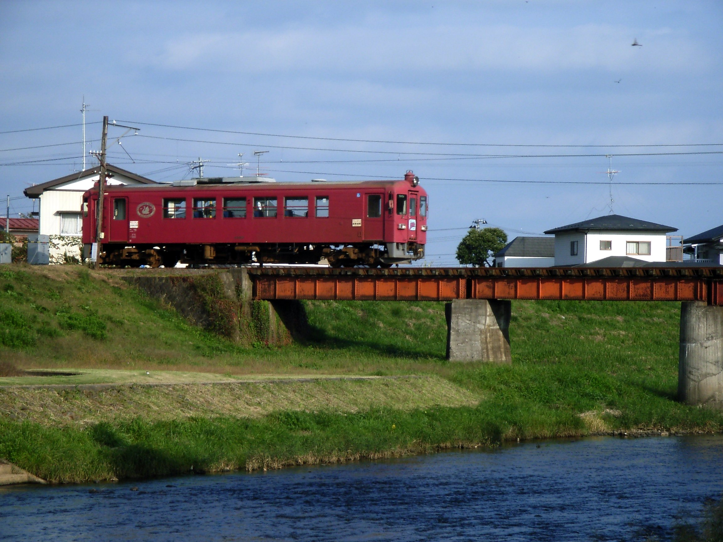 Kurihara Denen Railway over the Sanhasama River. Kurihara, Miyagi prefecture, Japan.